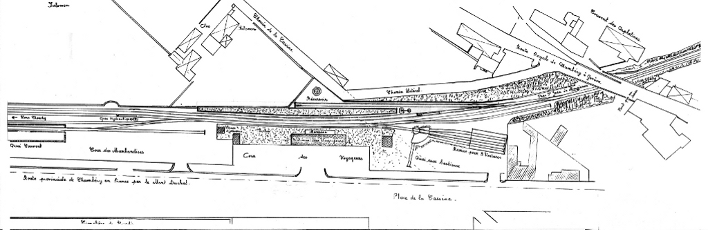 Drawing of the future city of Chambéry railway station plant, in Savoie, France.